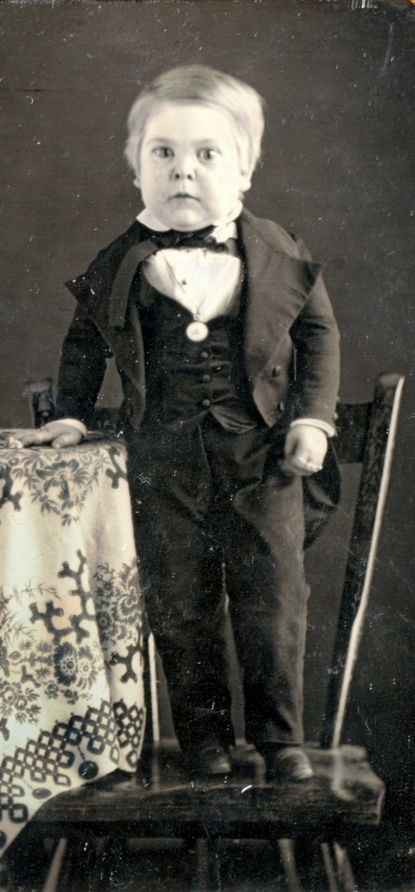 Charles Sherwood Stratton, aka General Tom Thumb, daguerreotype